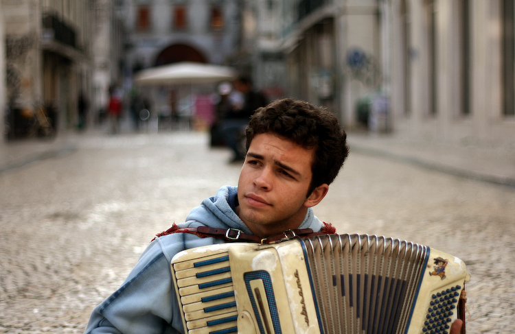 Beggar playing accordion in Chiado (Lisbon, Portugal)